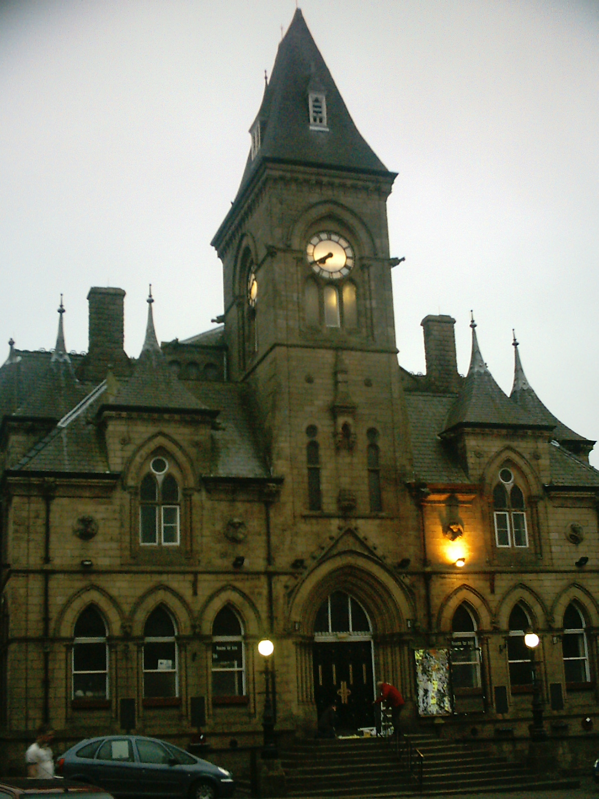 Yeadon Town Hall, Yeadon, Leeds, West Yorkshire, UK. April 2009.